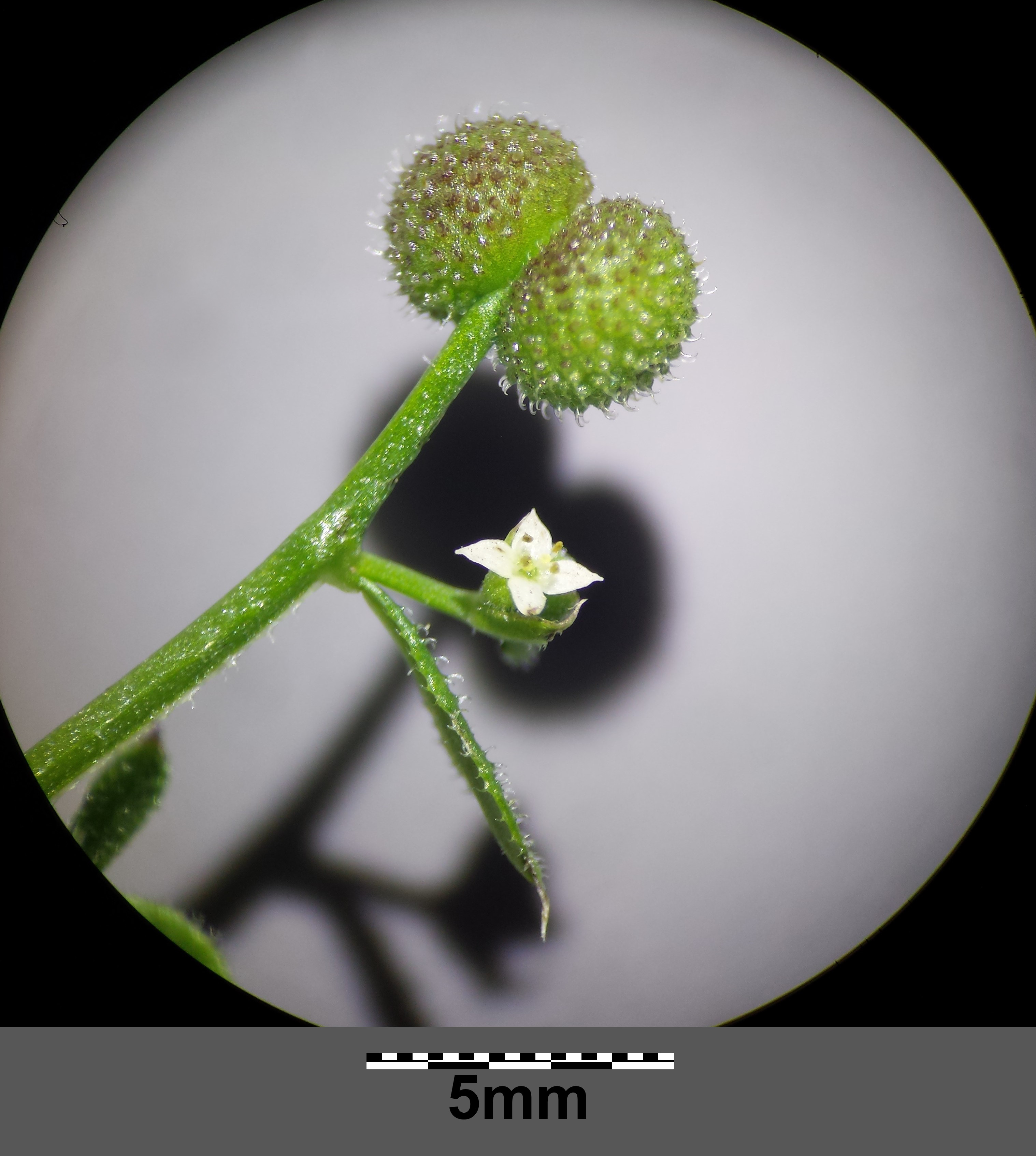 Inflorescence Taxonym: Galium aparine (s. str.) ss Fischer et al. EfÖLS 2008 ISBN 978-3-85474-187-9 Location: Steinberg near Niederhollabrunn, district Korneuburg, Lower Austria - ca. 350 m a.s.l. Habitat: field